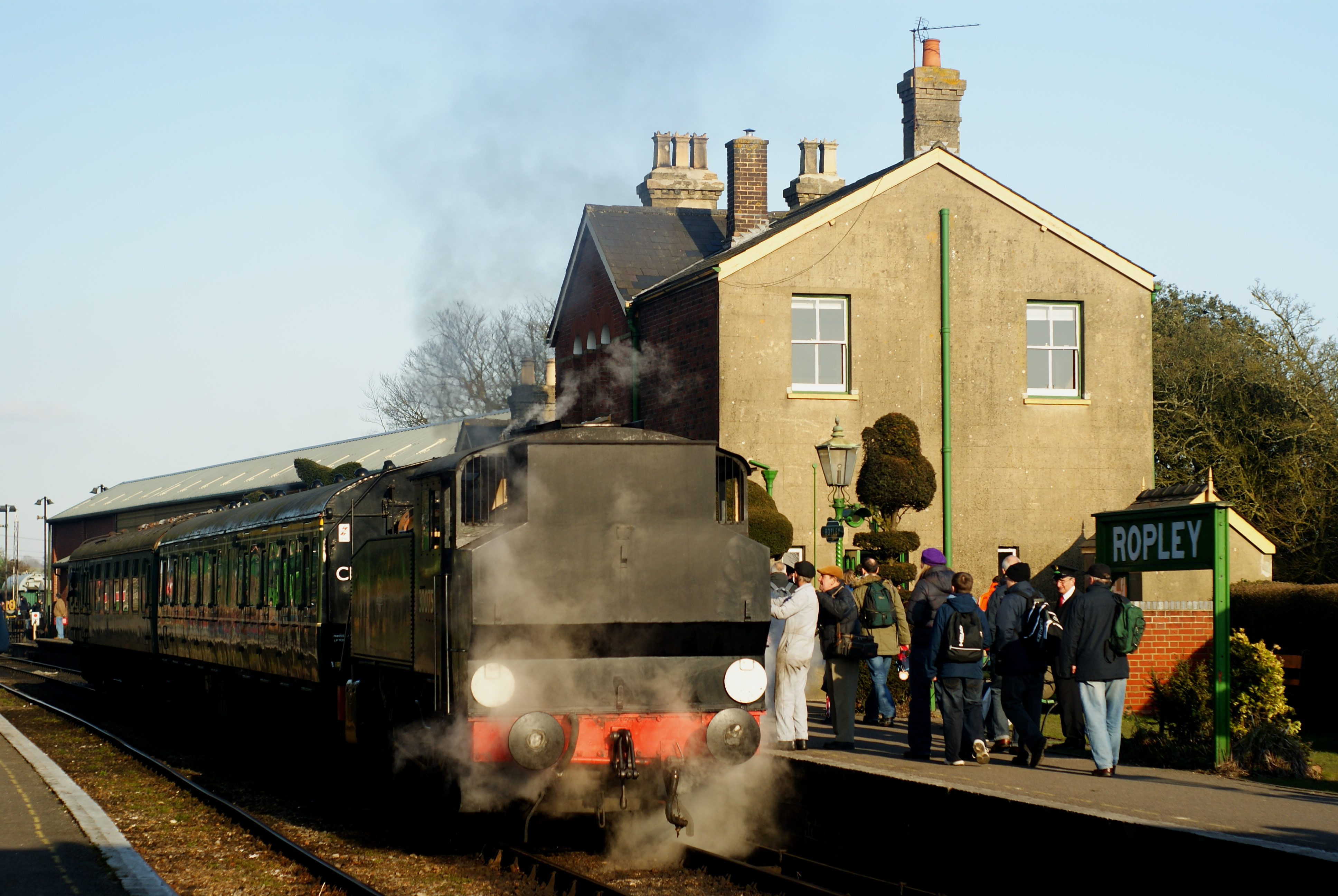 Ropley Station, Hampshire In this photograph, Ropley station has the appearance of a quiet country station of the Southern Railway period. No.30075, a Yugoslavian-built Class 62 USA tank locomotive gently simmers before leaving for Alresford with a "local" train.